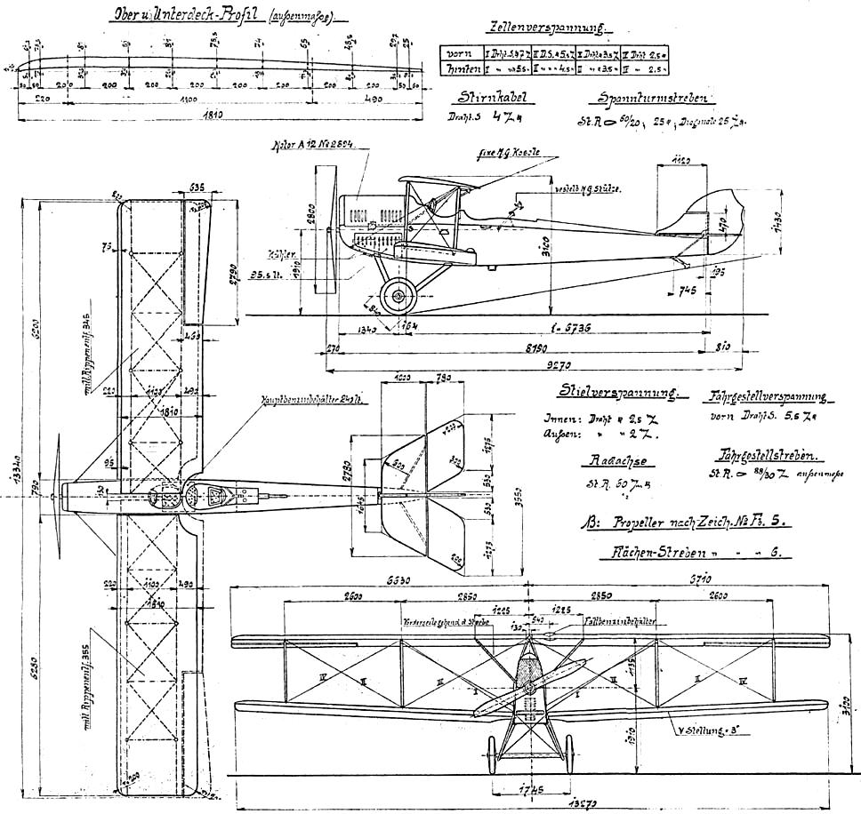 SIA 7B Italian reconnaissance aircraft drawing